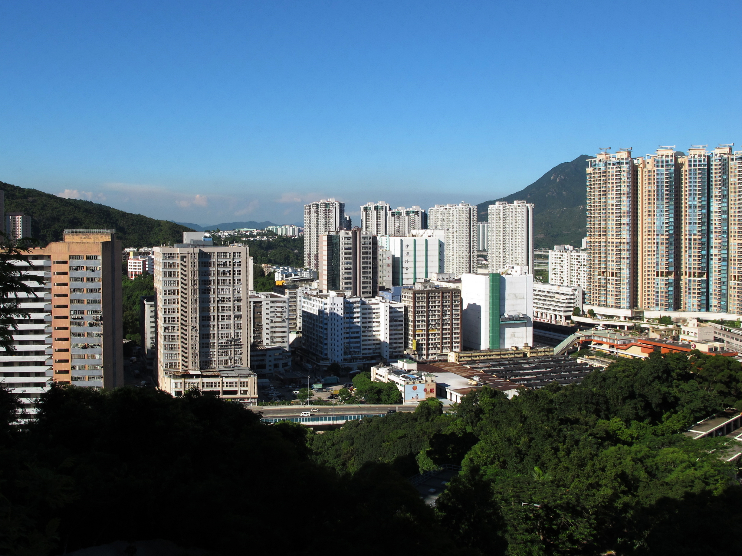 Fo Tan Overview 火炭